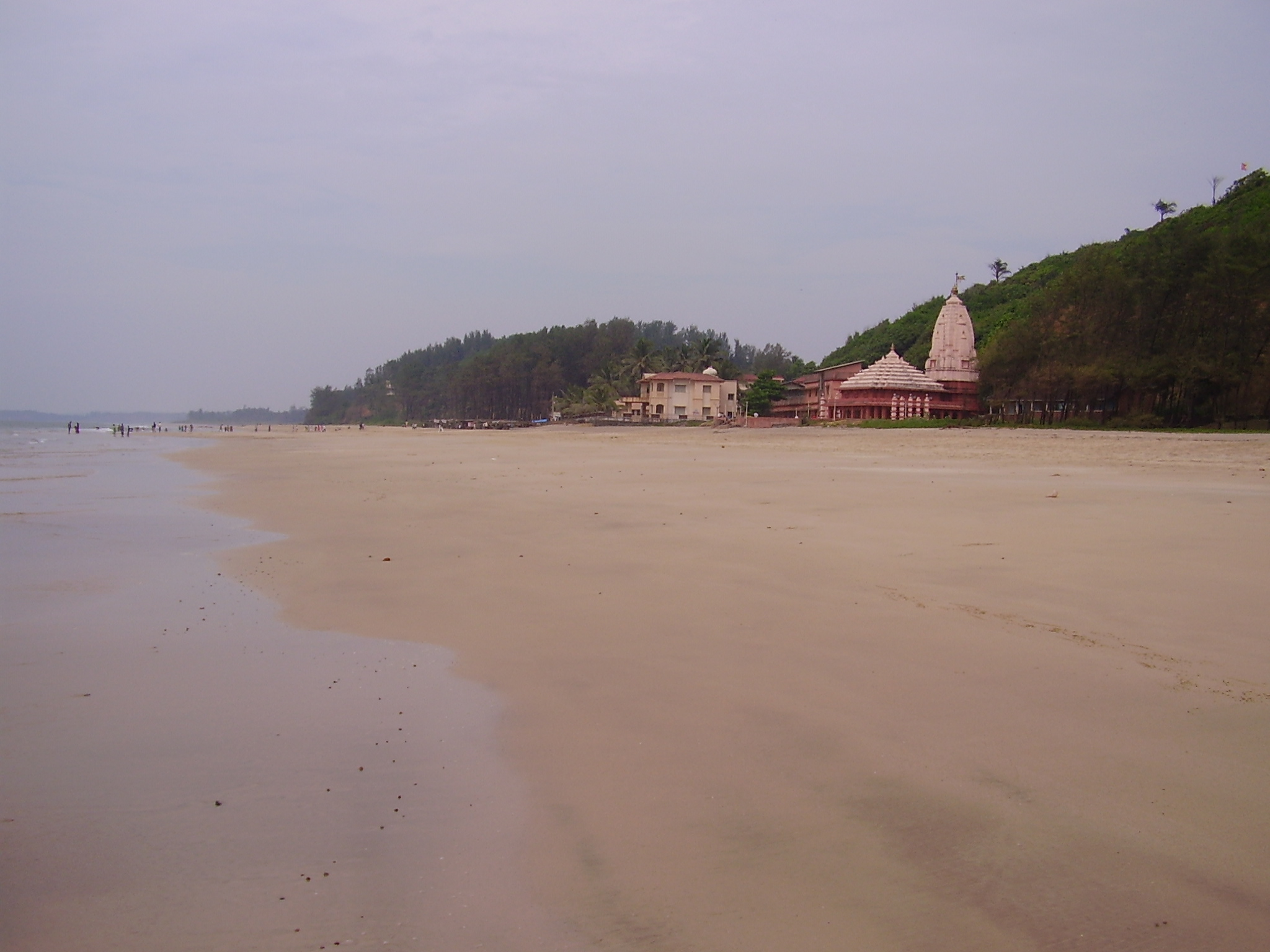 Private Photo collection --Ruhirm| 09:06, 20 July 2006 (UTC) This is not Bhatye Beach. Bhatye Beach is in Ratnagiri city and Ganapatipule beach is different one. The Caption/filename SHOULD be changed.